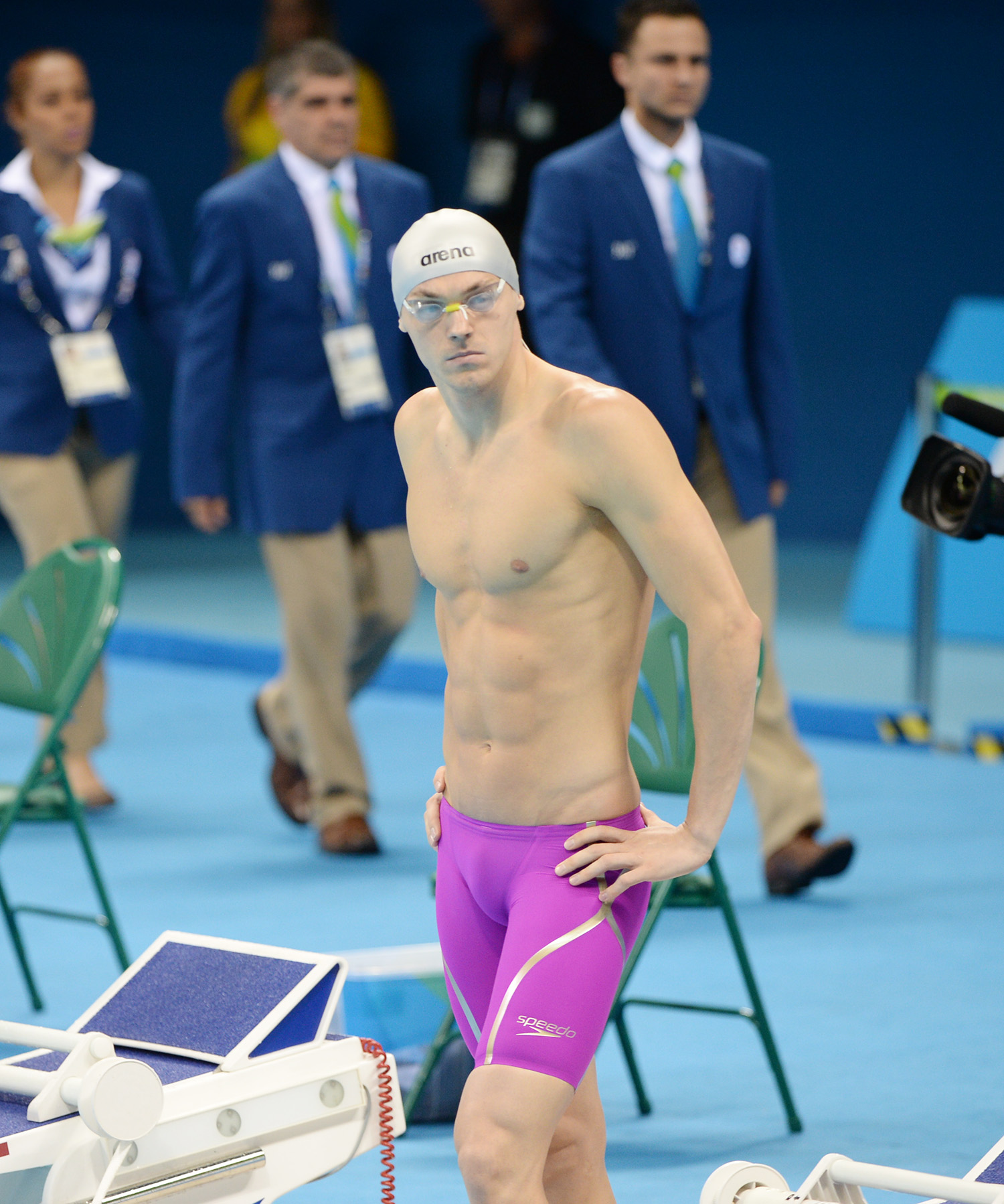 Dzmitry Salei. Swimming at the 2016 Summer Paralympics – Men's 100 metre backstroke S12